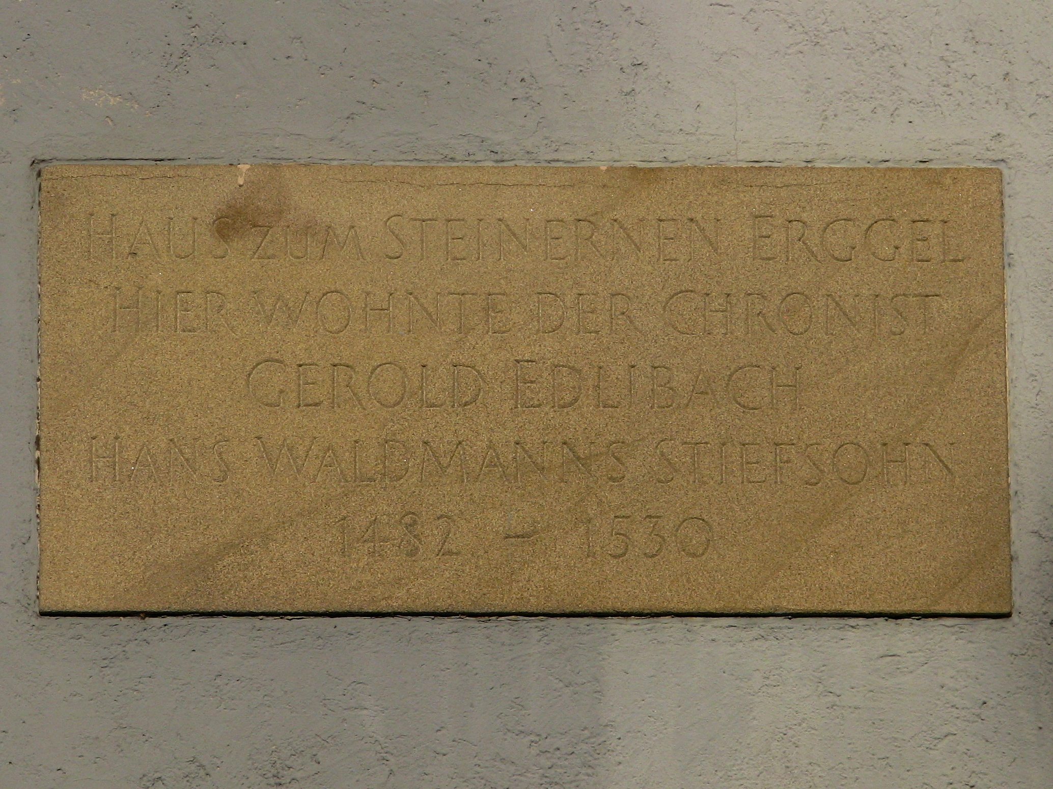 Zürich, Oberdorfstrasse: «Haus zum Steinernen Erggel», memorial at the former home of Gerold Edlibach (* 1454; † 1530)